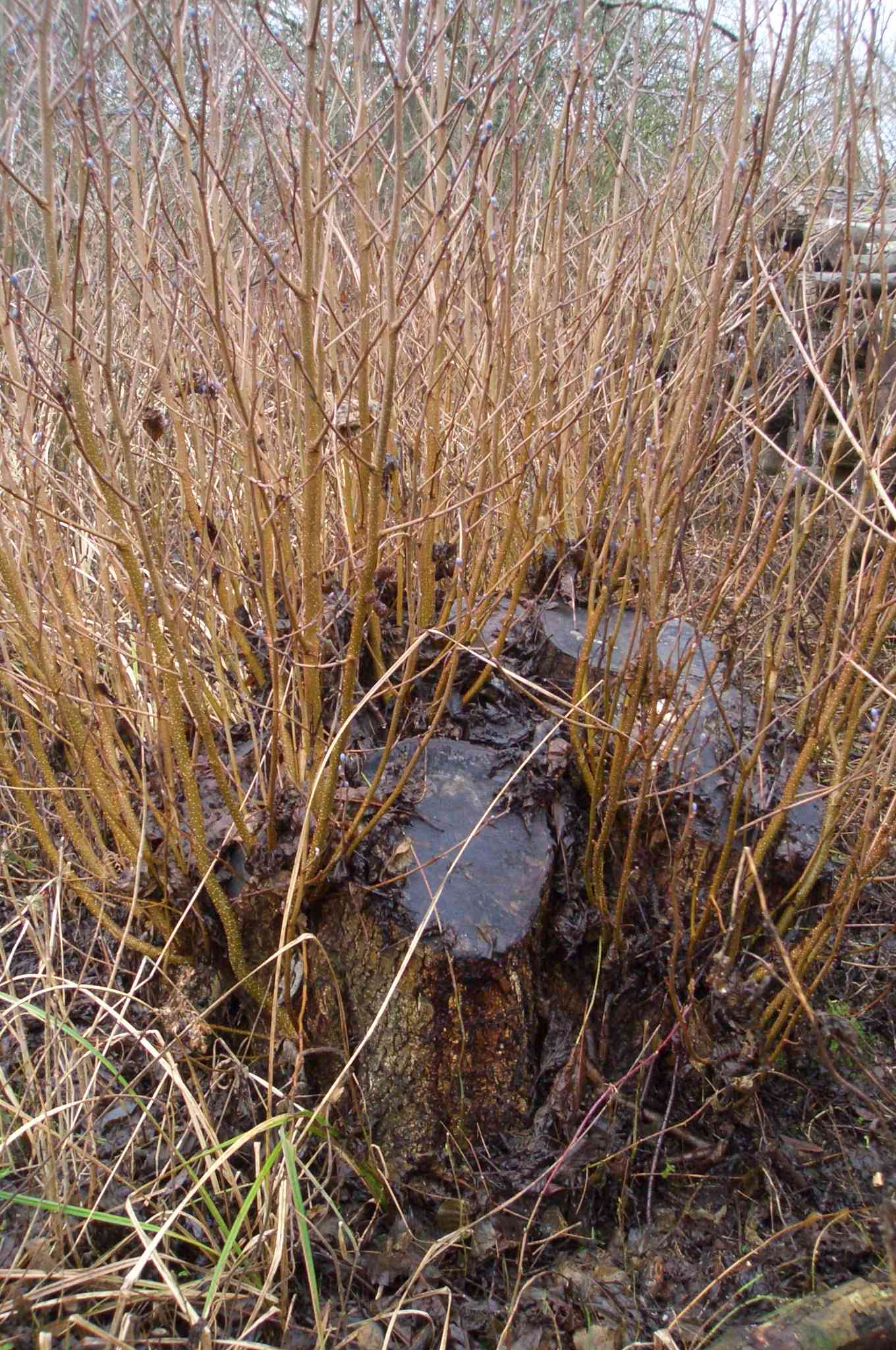 A coppiced alder stool after one year's growth. Taken by Cat James 12 February 2005 in East Dean, Hampshire This is the same stool as is shown in Image:Coppice stool.jpg after one year's regrowth.